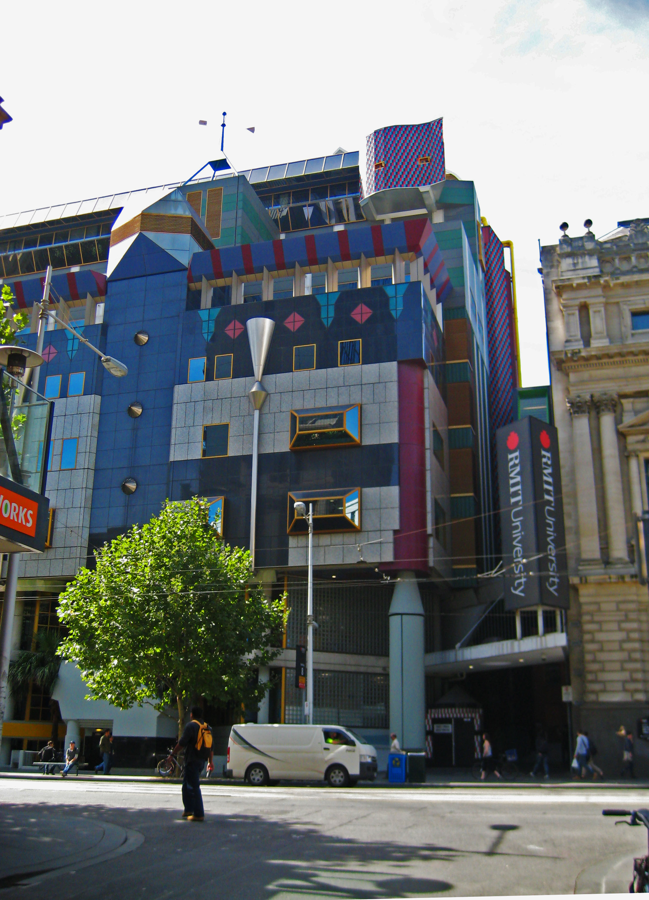 original photograph taken of building 8 of RMIT, in swanston st in melbourne.